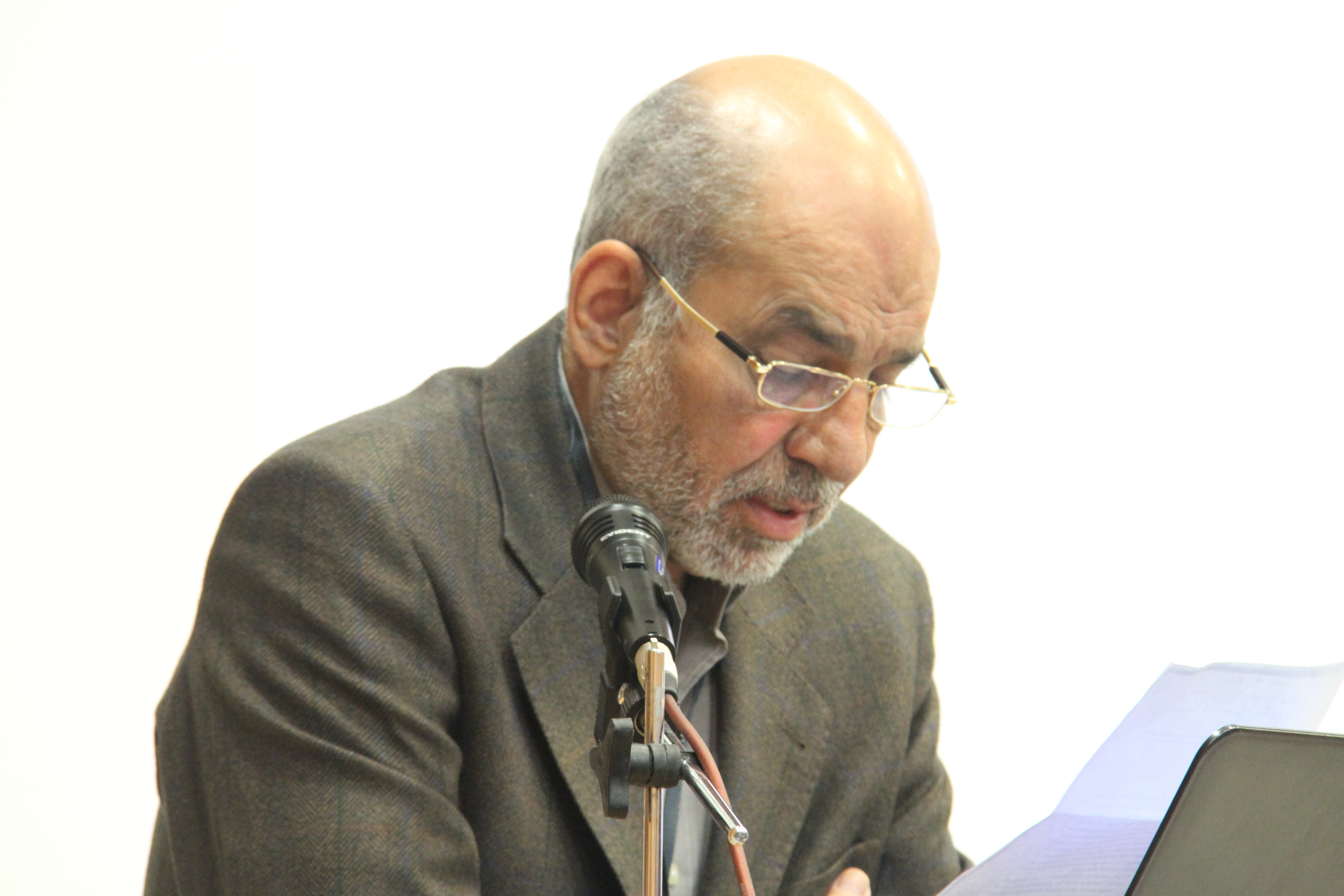 Reza Amrolahi at the IWPSA 2011 in Tehran, Iran